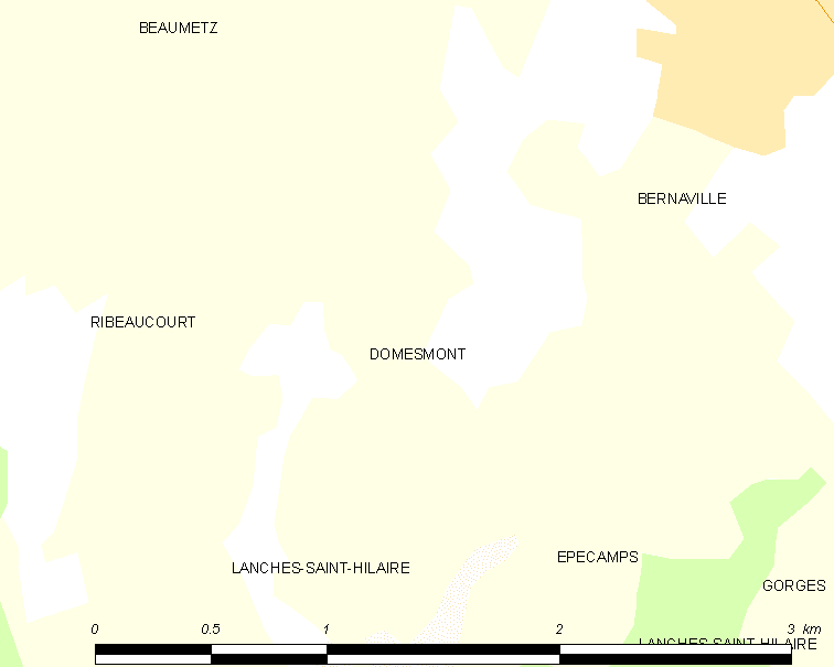 Map of French municipality Domesmont